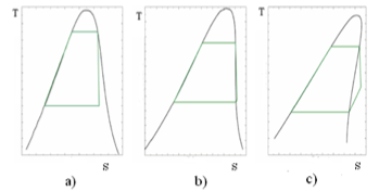 a) mokri fluid b) izentropski fluid c) suhi fluid